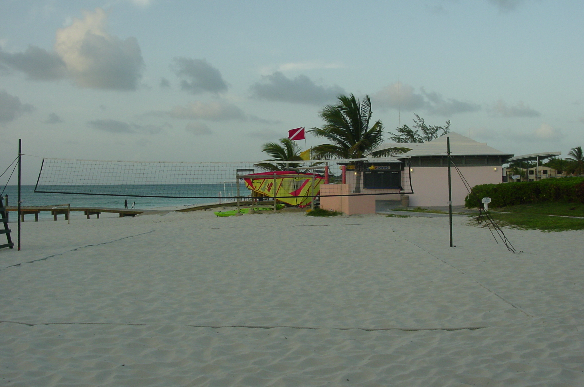 A view of the beach at The Beaches resort on the Turks and Caicos Island.